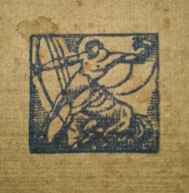 Logo Simon Kra Sagittaire 1925 The logo of the French Publisher Simon Kra / Aux Editions du Sagittaire, Paris